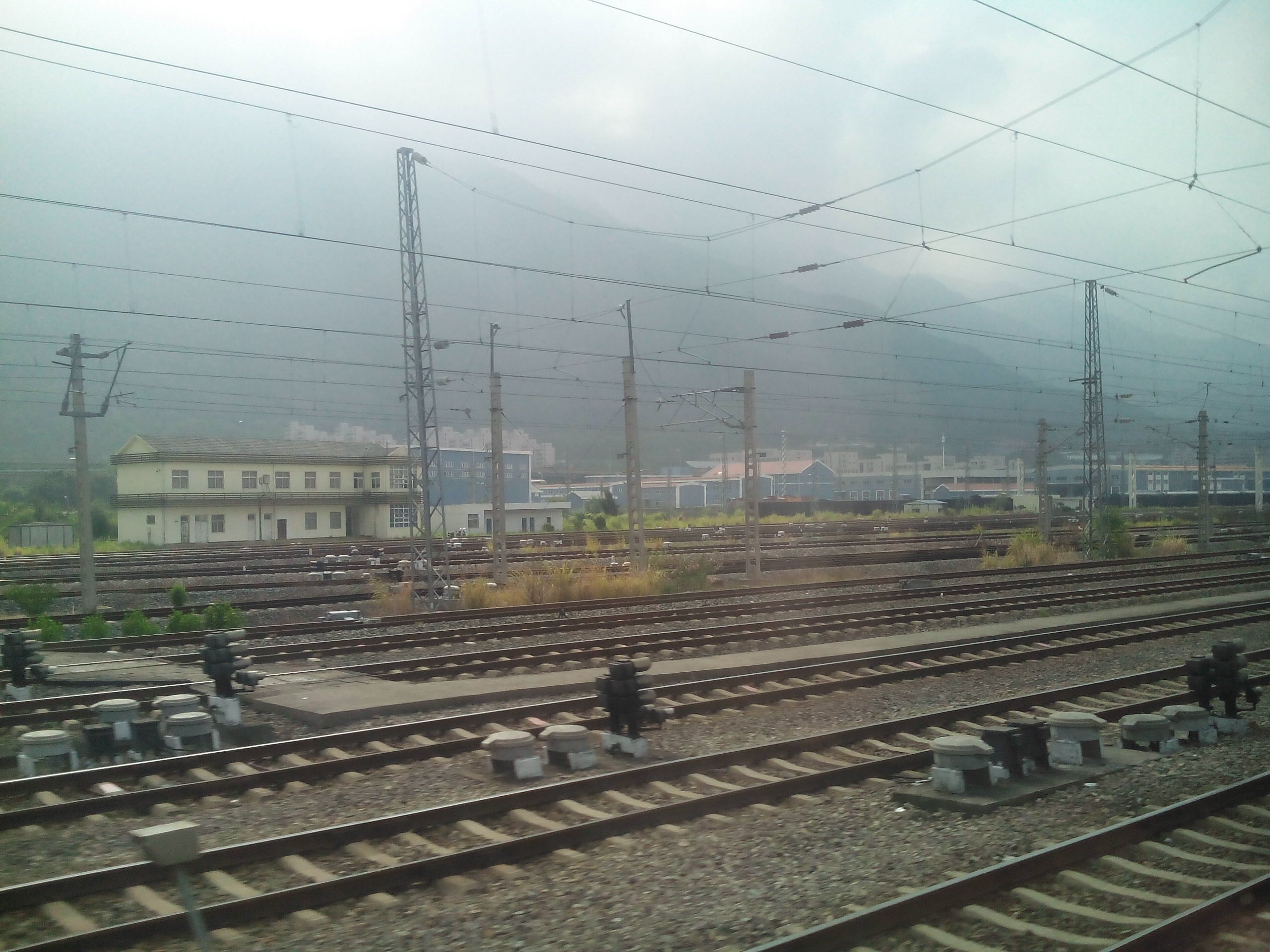 201508 Zhanglin Railway Station